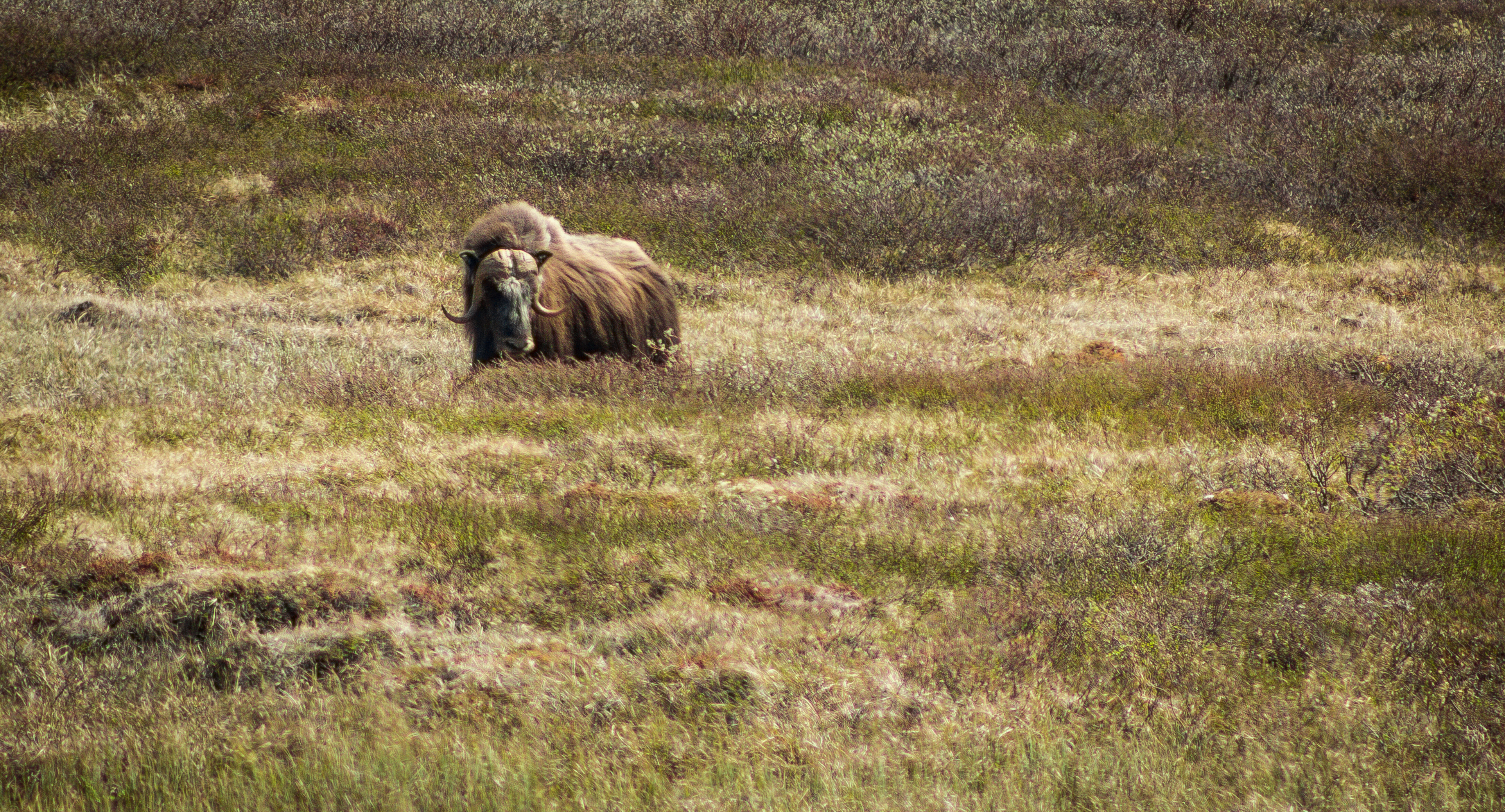 near Kongsvoll, Norway